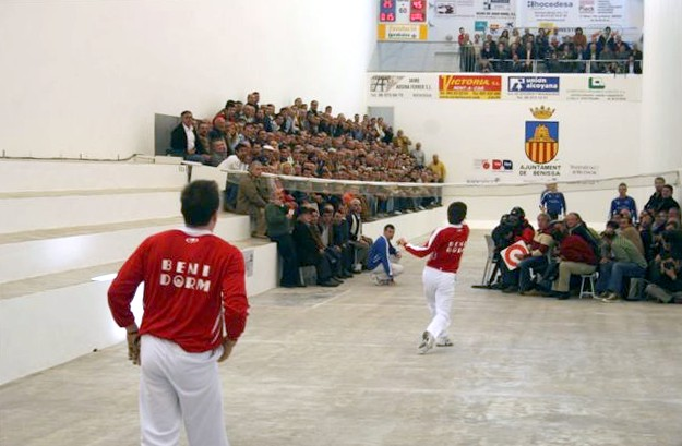 1st final match of the 2007/08 Circuit Bancaixa championship, Valencian pilota's Escala i corda.